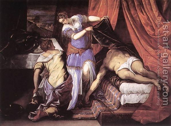 Judith and Holoferneslabel QS:Len,"Judith and Holofernes" label QS:Lpl,"Judyta i Holofernes"